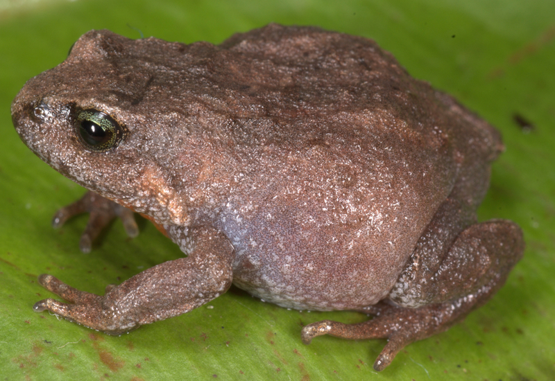 Bryophryne hanssaueri